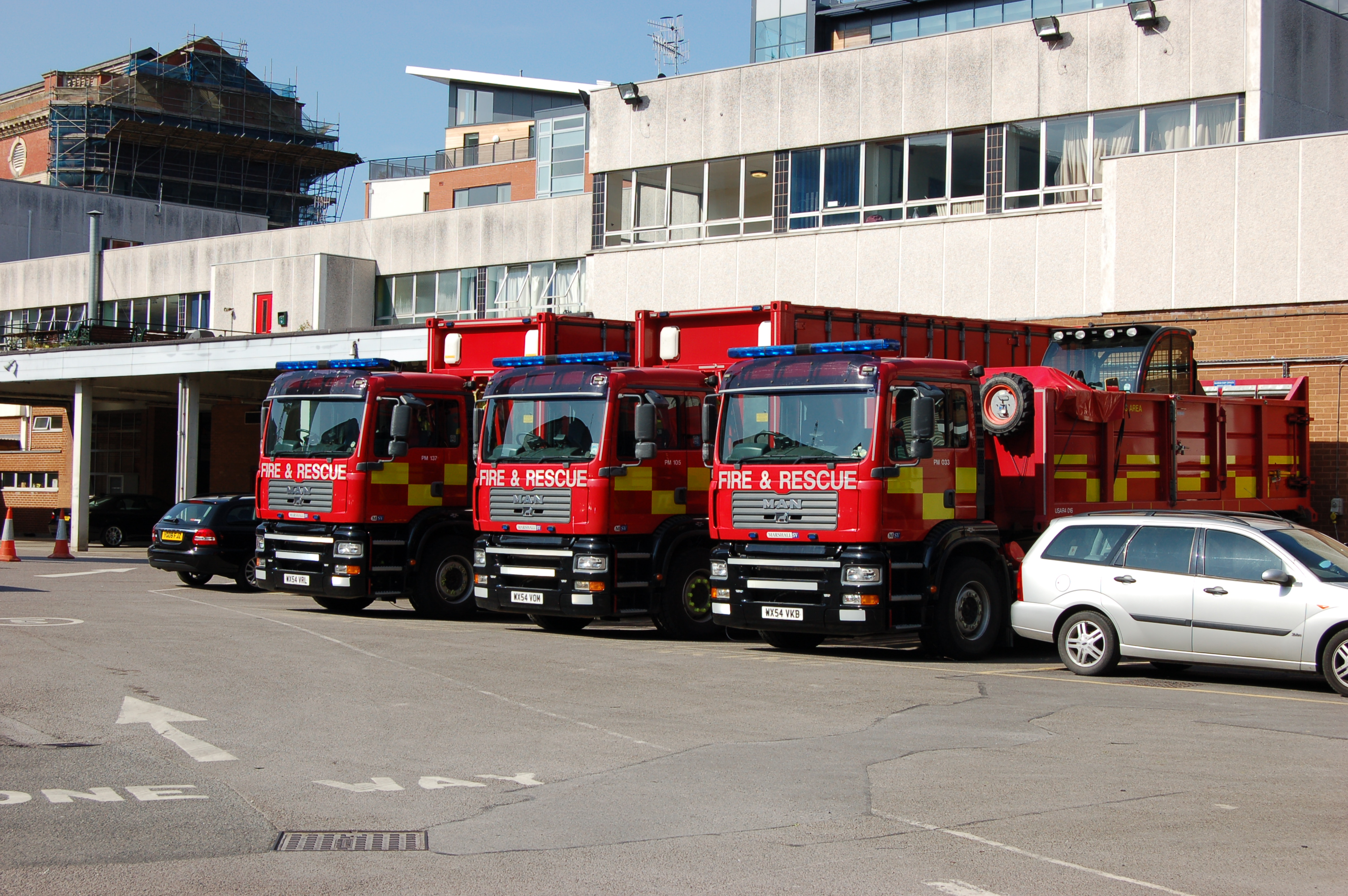 Photograph of New Dimension decontamination and urban search and rescue (USAR) vehicles at Temple fire station in Bristol.